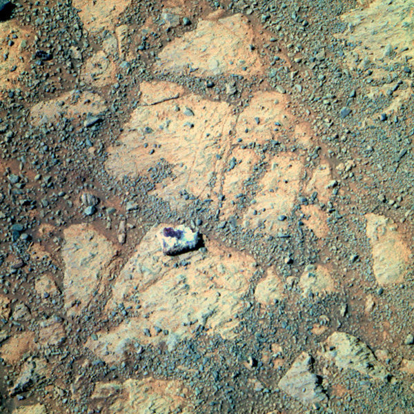 A rock called "Pinnacle Island" in January 2014.